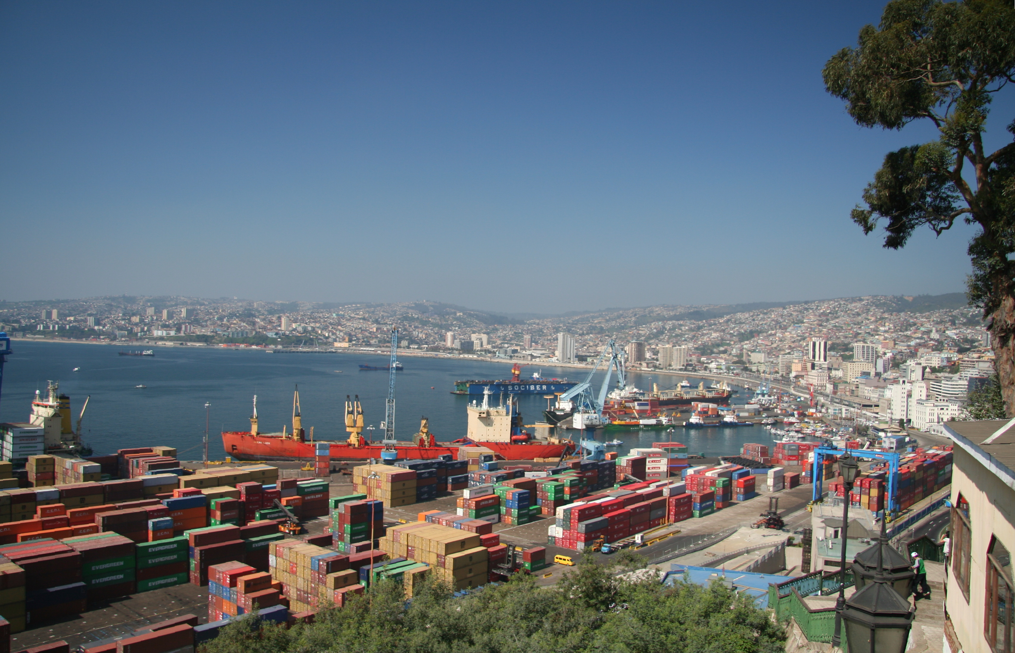 Valparaiso's port and the city